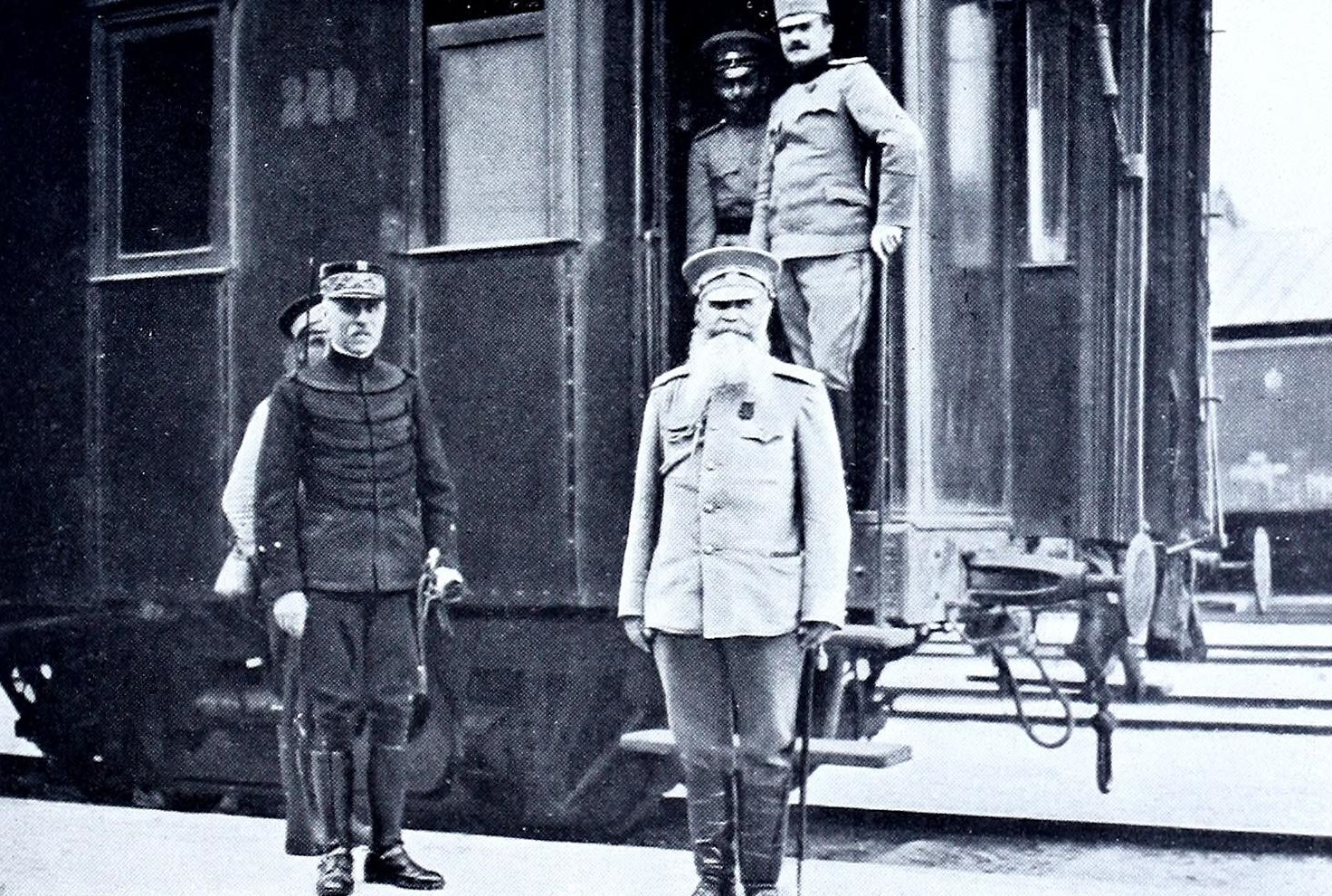 General Ivanov with General Marquis de Laguiche, 18th August 1914.